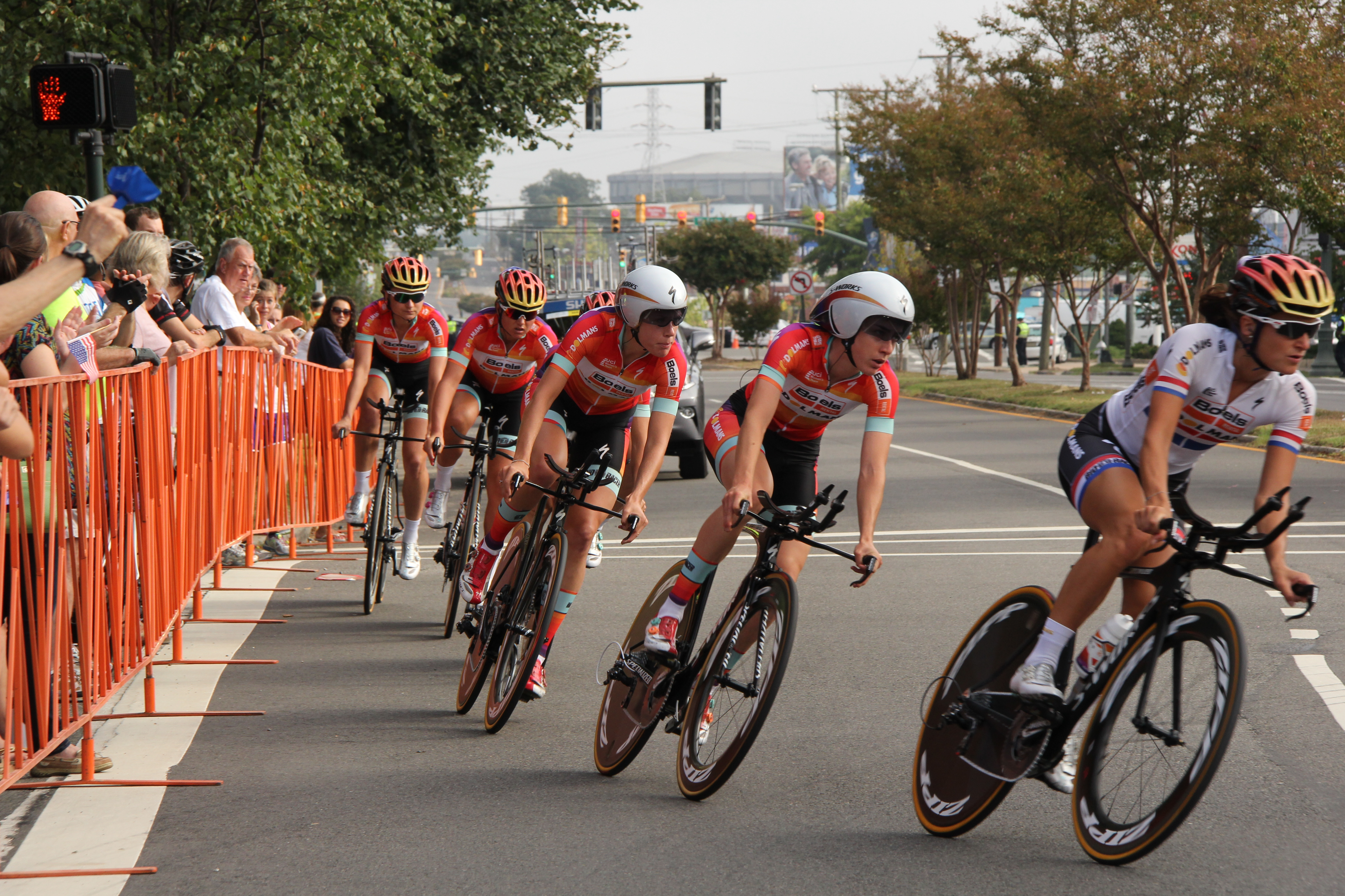 The world has come to Richmond. Welcome! Bienvenidos! Willkommen! 2015 UCI Road World Championships, in Richmond, United States